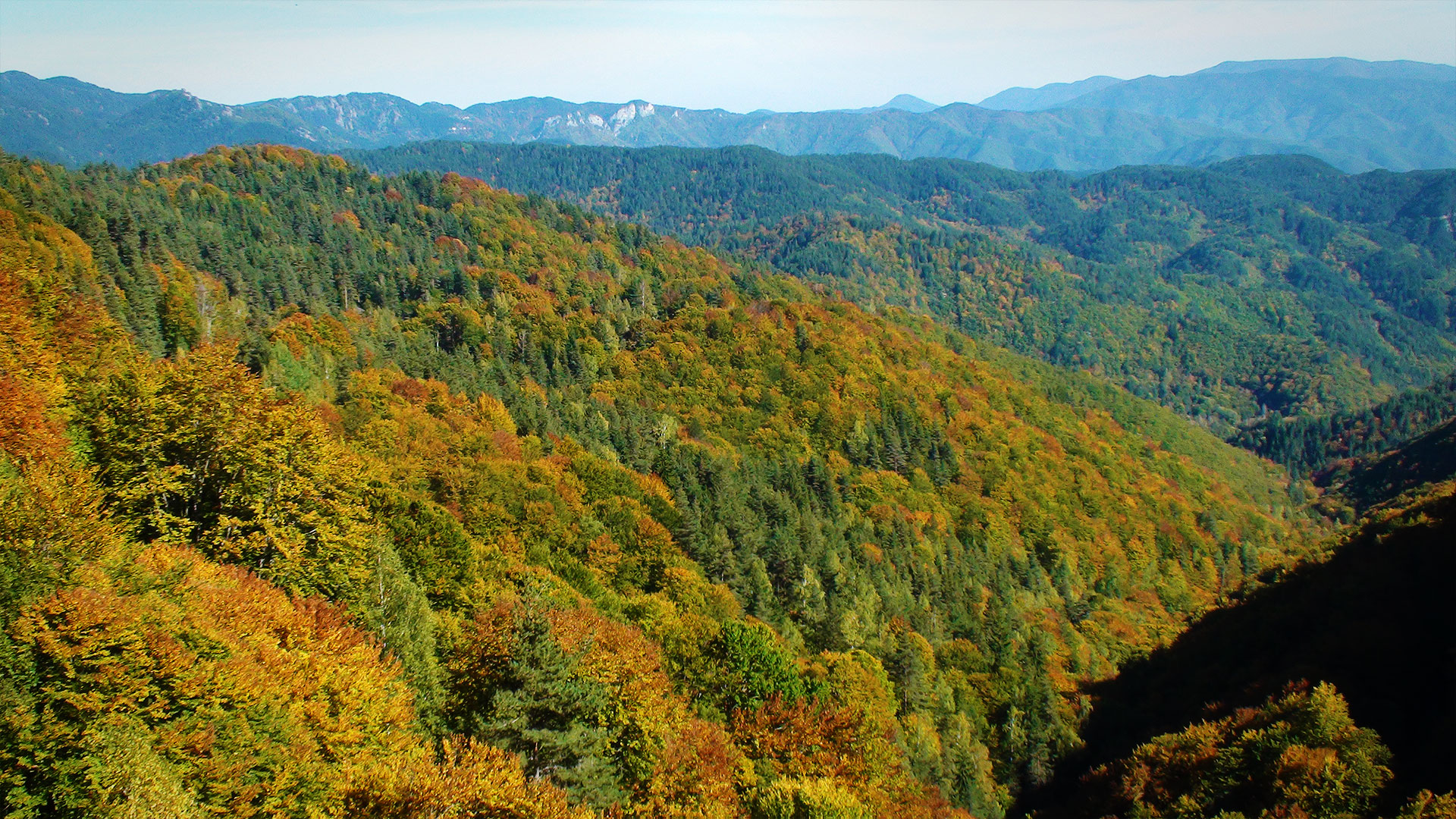 This is a photography of Natura 2000 protected area with ID GR1140003